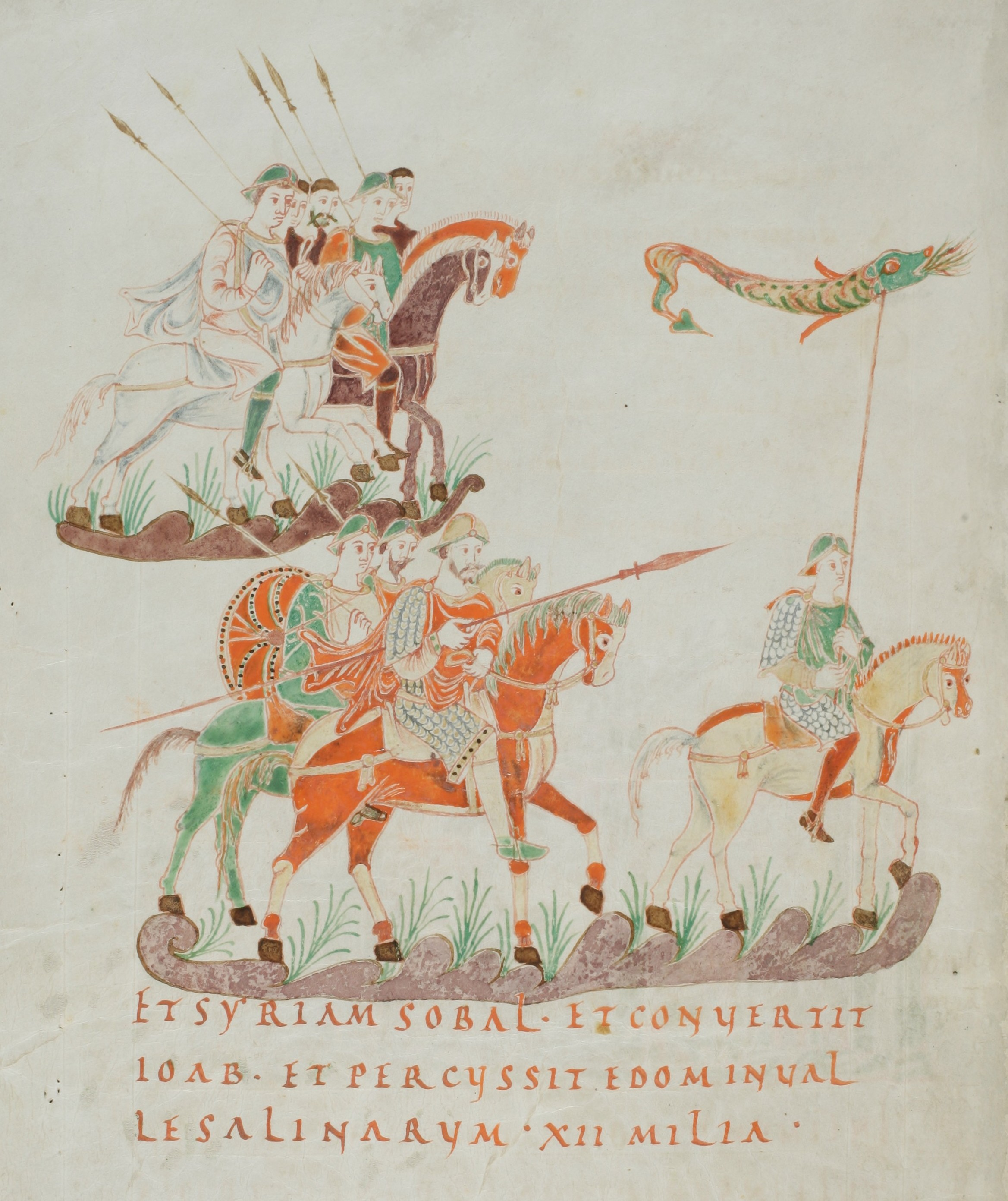 Joab leading the Hebrew cavalry against the Syrians (depicted as Carolingian-era Frankish cavalry), illustration of psalm 60 Text: ET SYRIAM SOBAL·ET CONVERTIT IOAB· ET PERCUSSIT EDOM IN VALLE SALINARUM·XII MILIA·